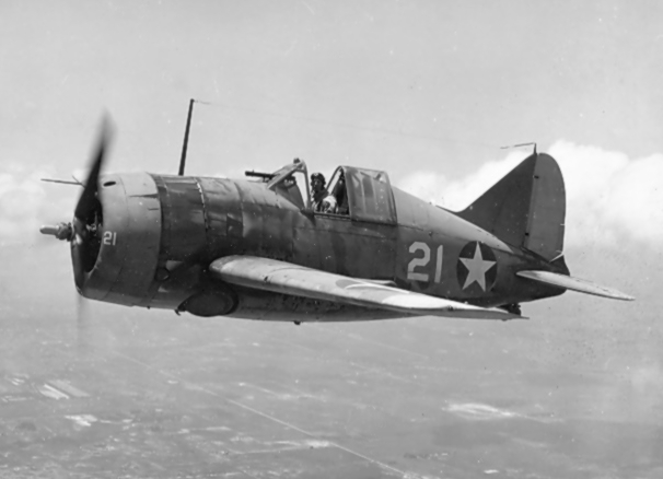 A U.S. Navy Brewster F2A-3 fighter pictured during a training flight from Naval Air Station Miami, Florida (USA), on 2 August 1942. The plane was piloted by LCdr. Joseph C. Clifton.